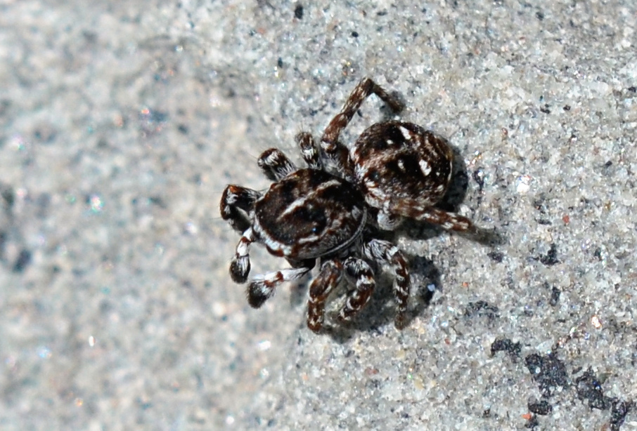 Calositticus floricola palustris in New Brunswick, Canada